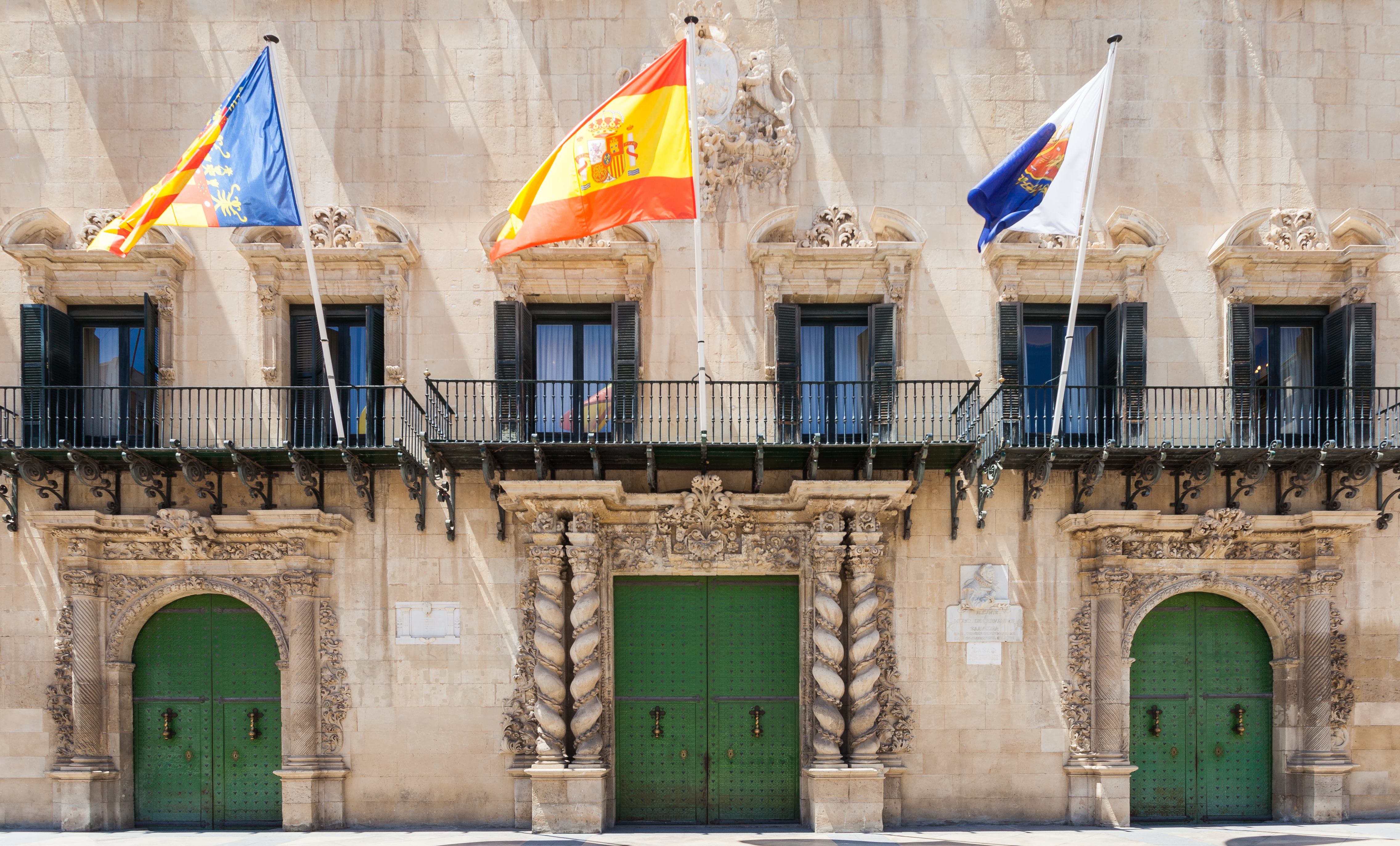 Alicante town hall, Spain